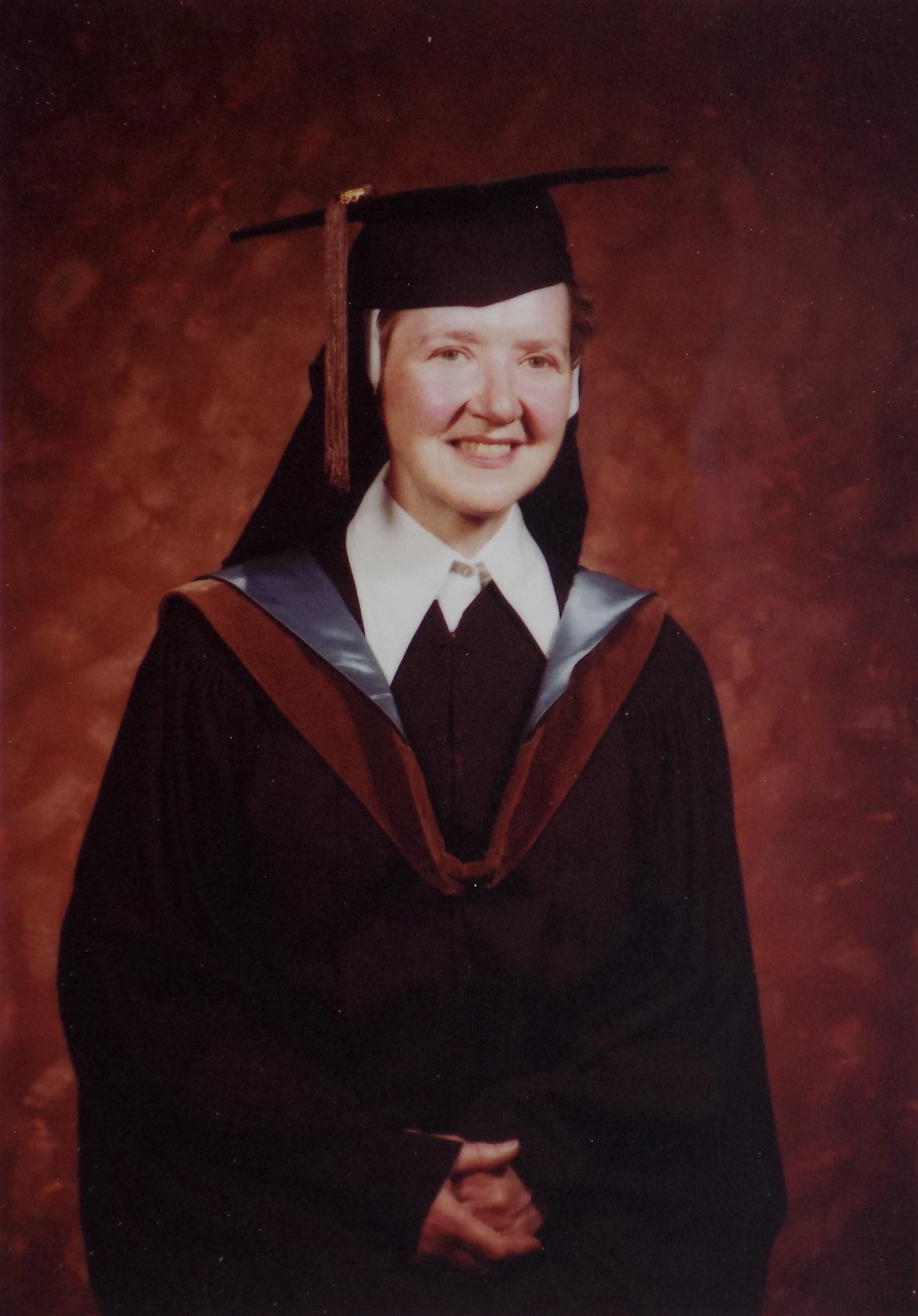 Sister Aloysius McVeigh received an MFA degree from the Tale School of Art in 1980.